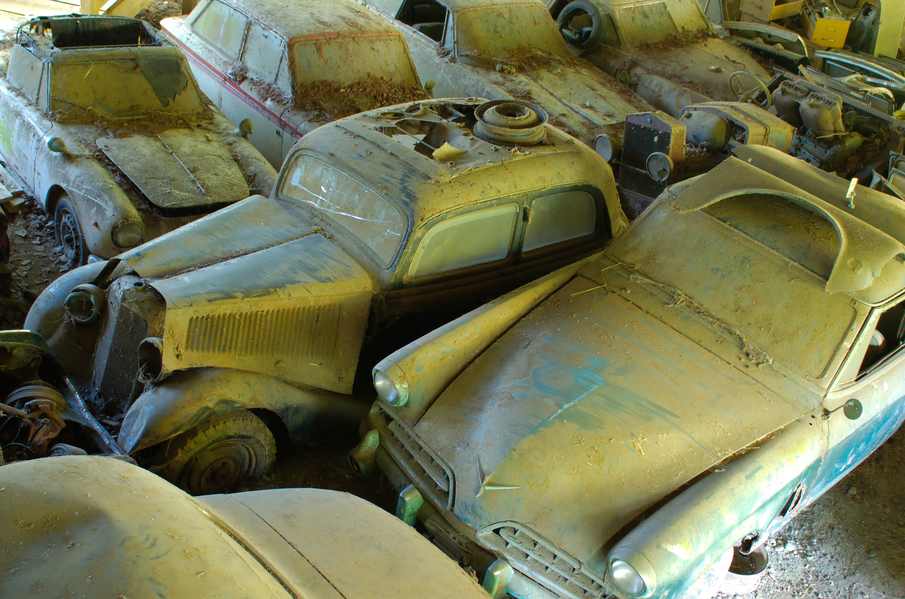 Historic car wreck on car cemetery in Kaufdorf, Switzerland